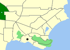 Map of the suburb of McKail in Albany, Western Australia.